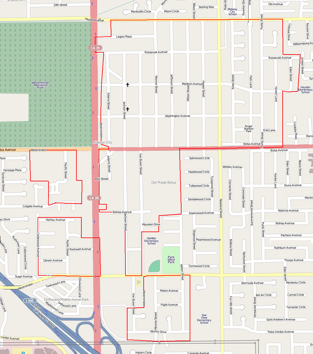 Midway City, California, computer image generated using OpenStreetMap